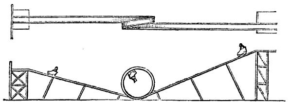 Simple design diagram of a centrifugal railway from 1840s